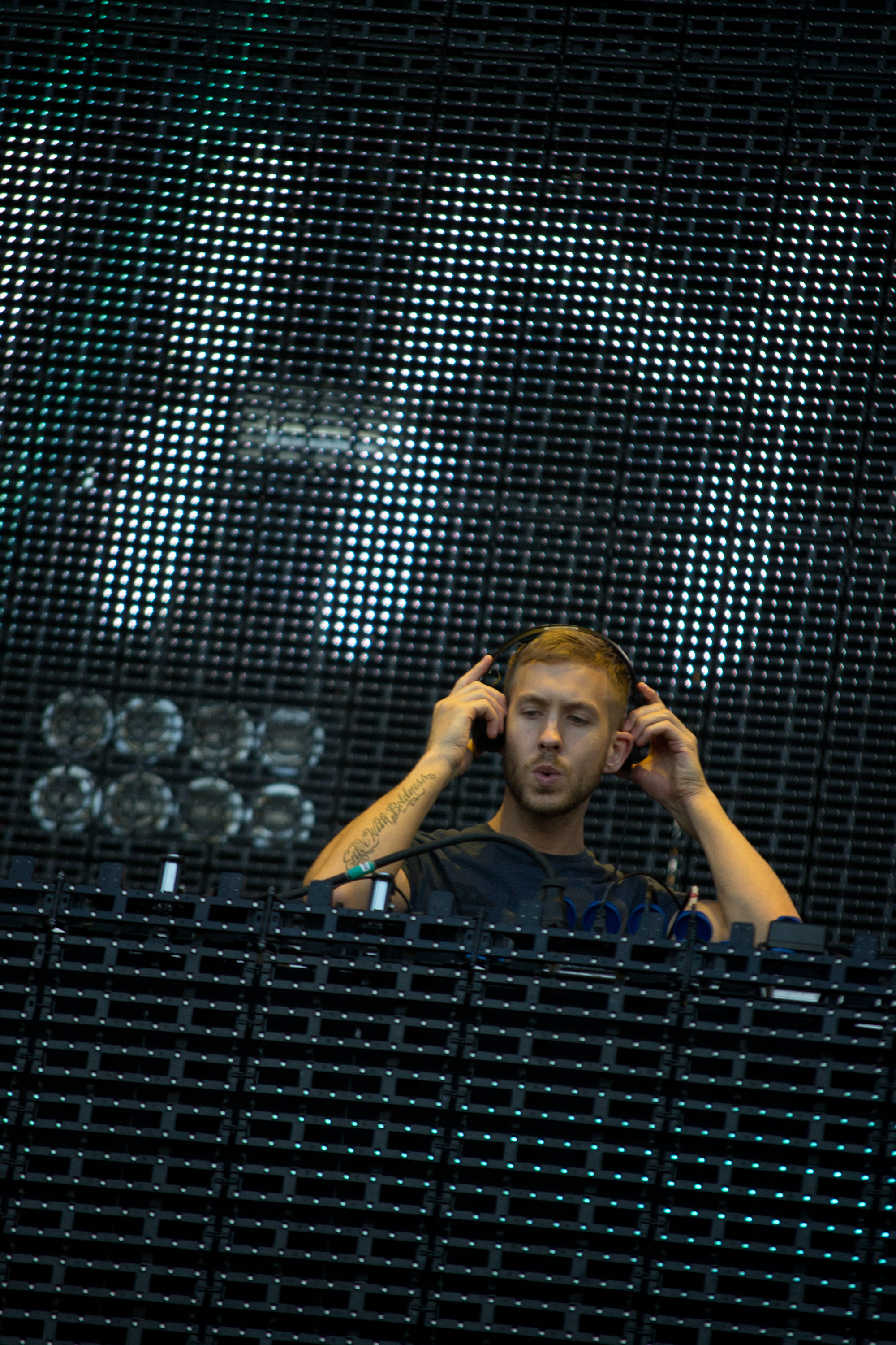 Calvin Harris in Rock in Rio Madrid 2012.